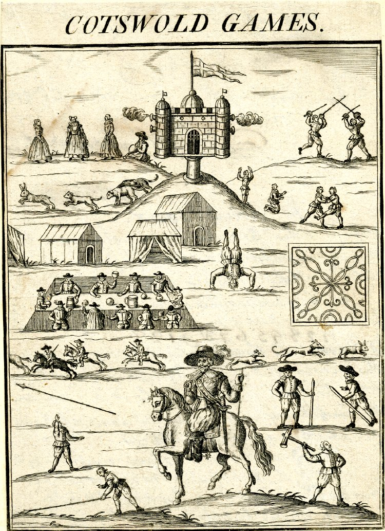 An old woodcut of the Cotswold Games. Originally published in 1636 as the cover of the book Annalia Dubrensia.